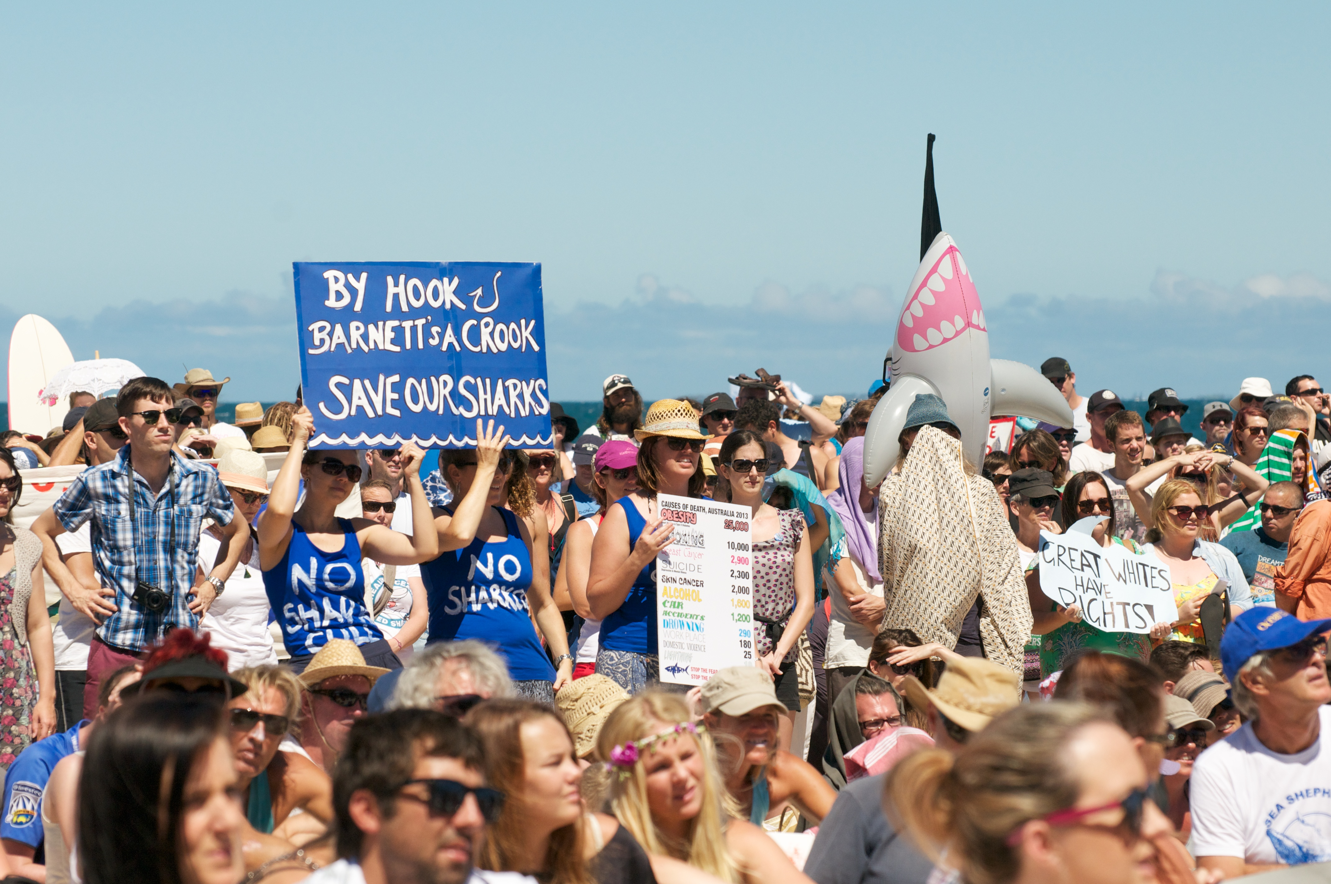 Crowd at No Shark Cull rally